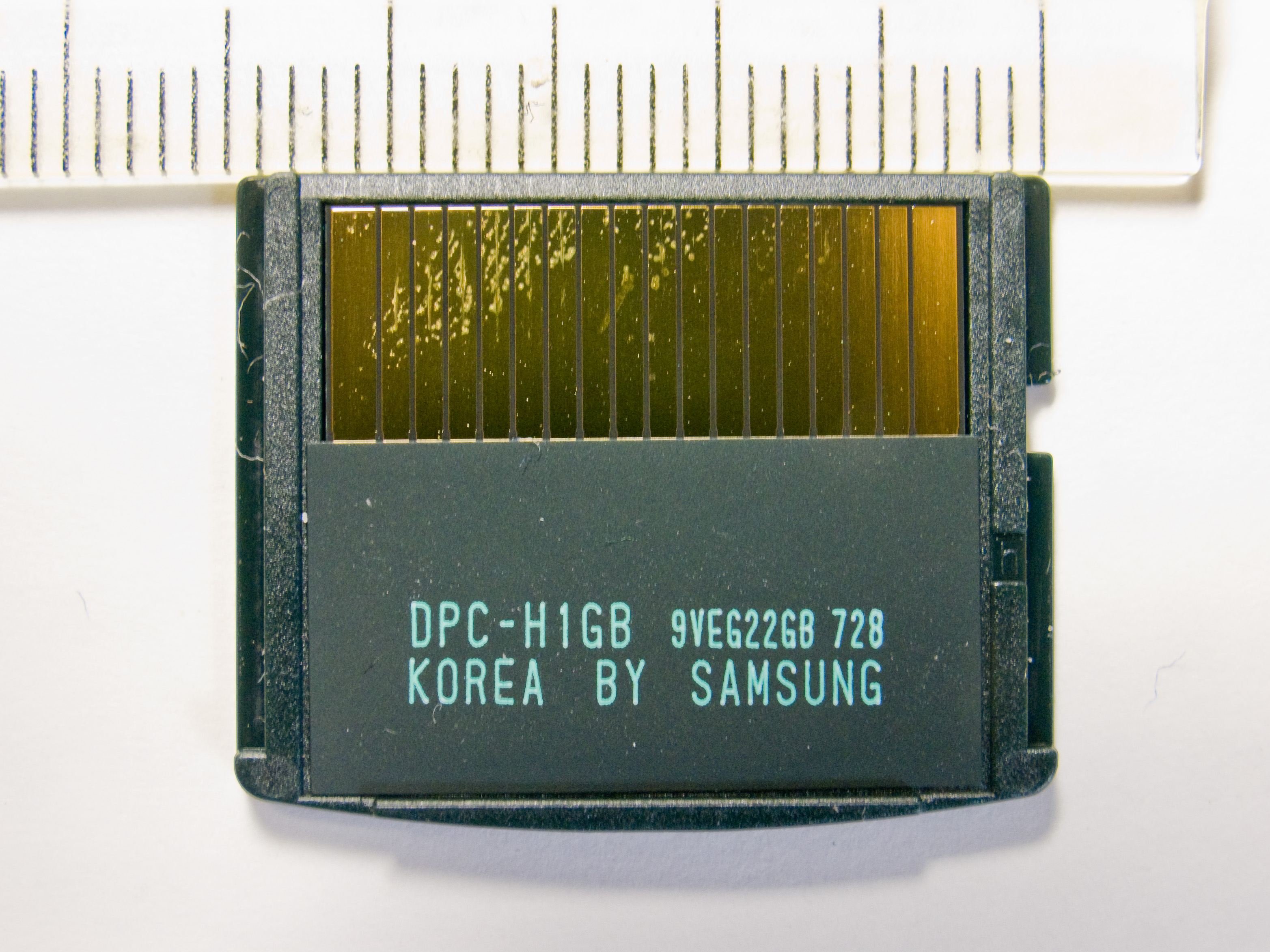 xD-Picture Card TypeH, 1GB, back (Fujifilm)